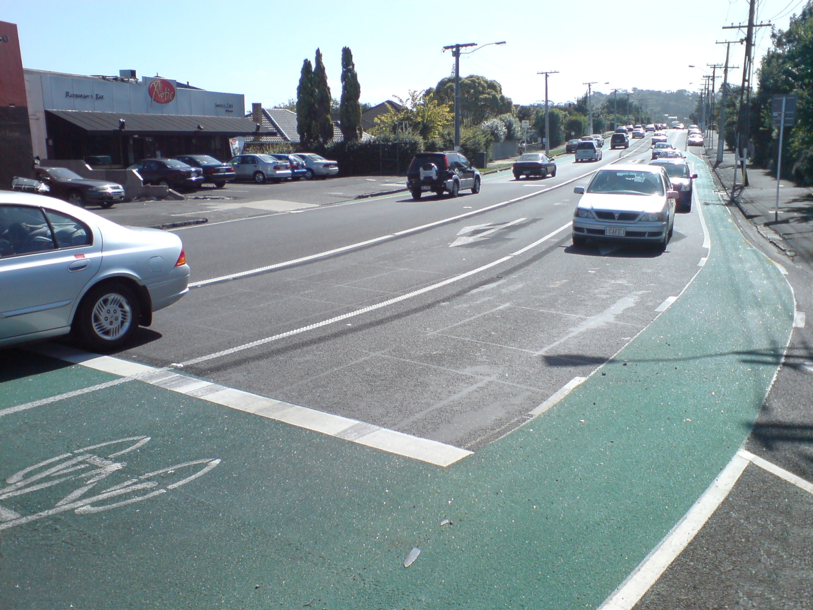 The cycle lanes on Mt Albert Road near the intersection with Sandringham Road in Auckland, New Zealand.